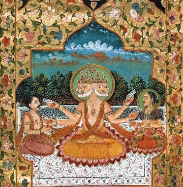 Brahma with Sarasvati, a miniature painting "Brahma with Sarasvati (Vac), from an illustration to the Bhagavata Purana, msatd 1793, Paris, BnF, Manuscrits orienta